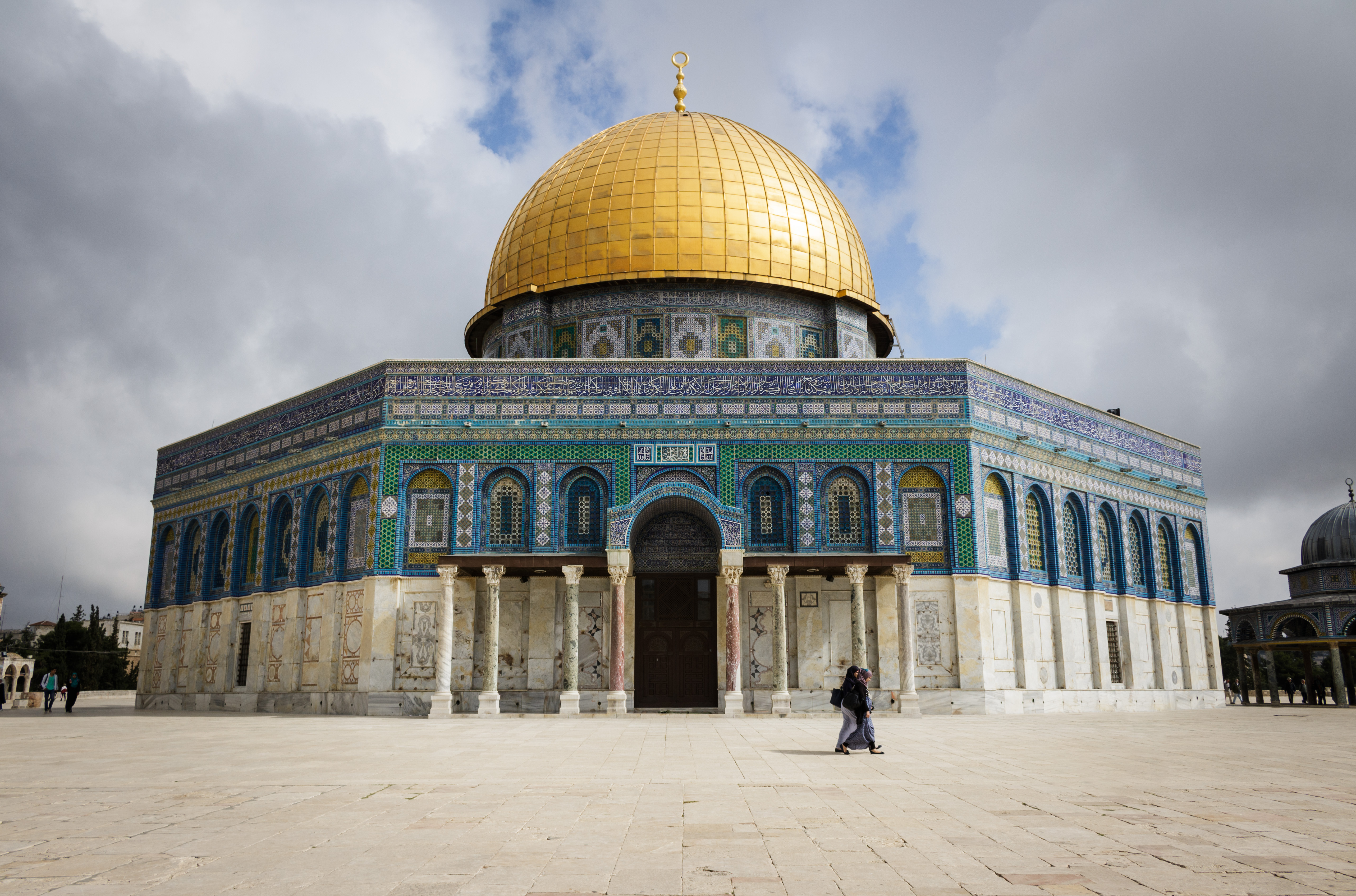 Features two Muslim girls walking in front of the Dome of the Rock.